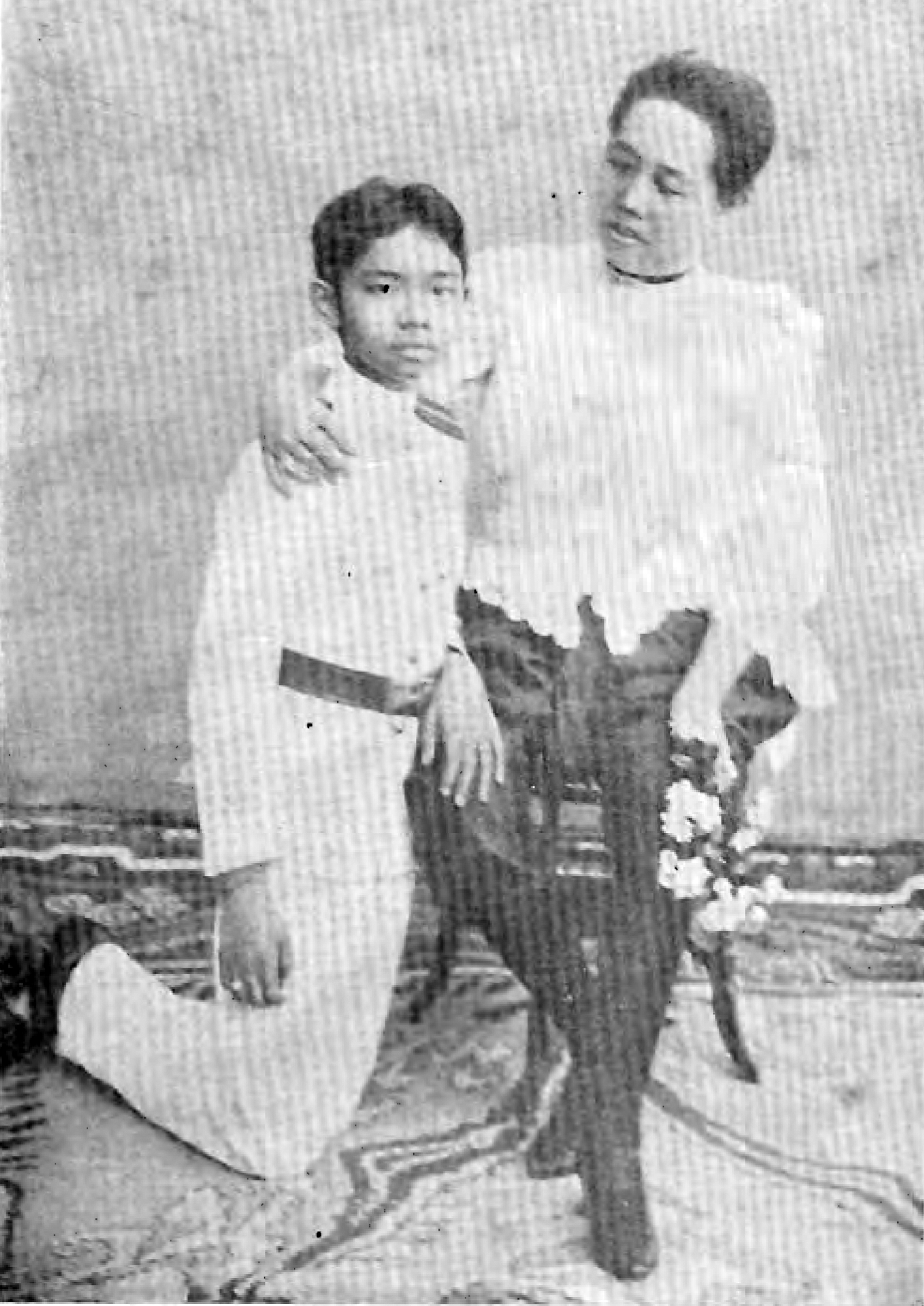 Young Prajadhipok and his mother, Queen Dowager Si Phatcharinthra.